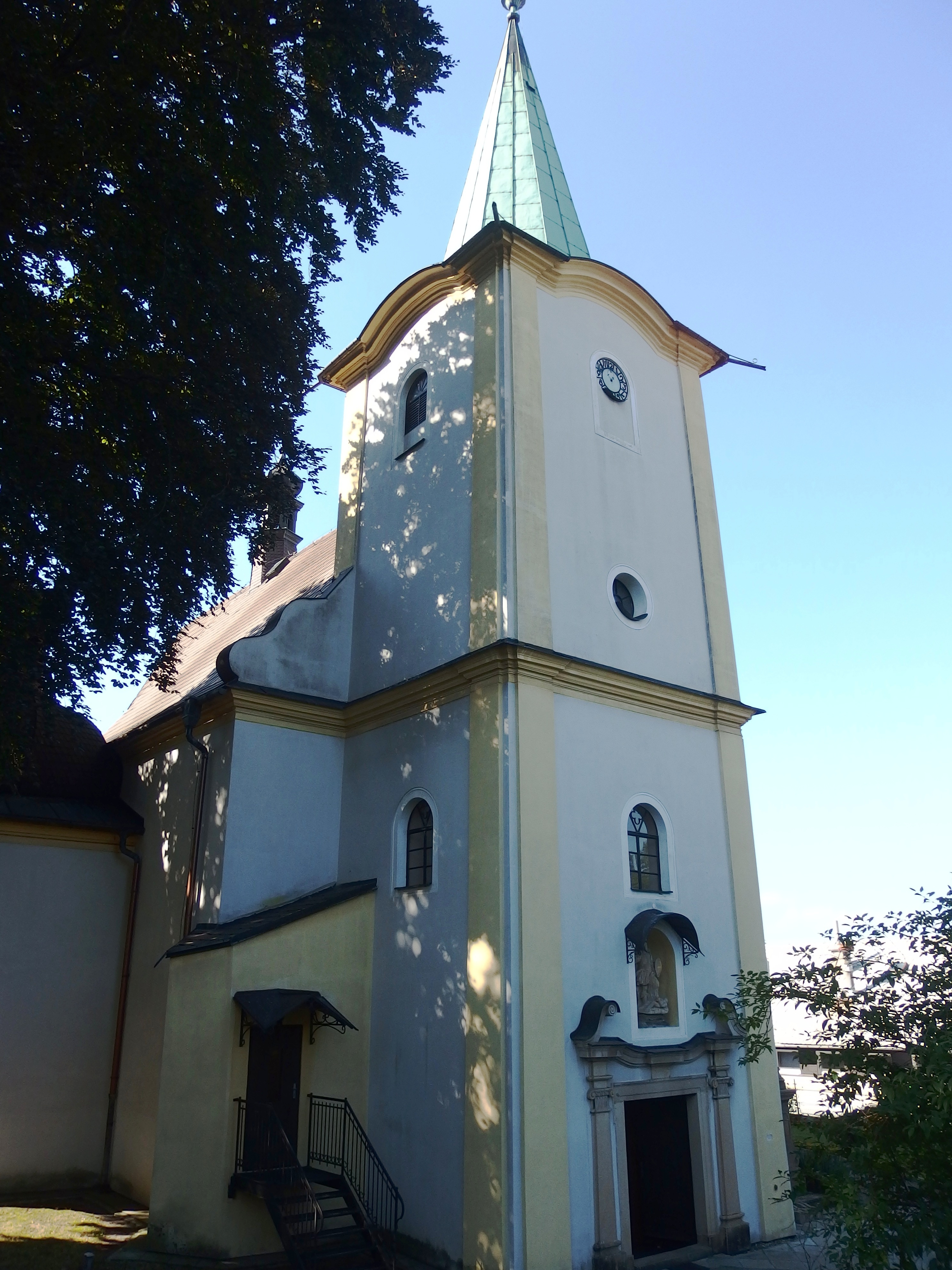 Lešná, Vsetín District, Czech Republic.